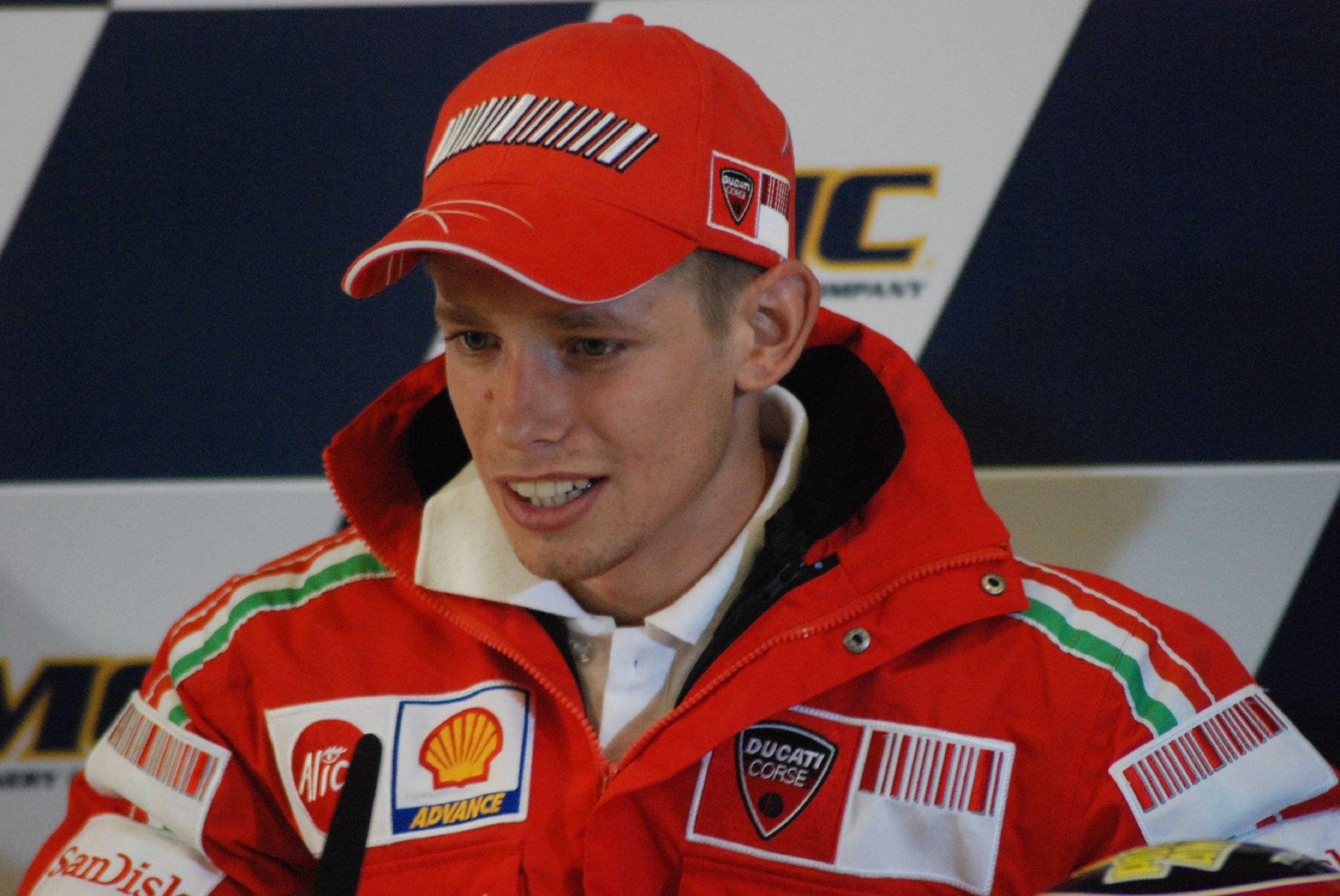 Post qualifying press conference.